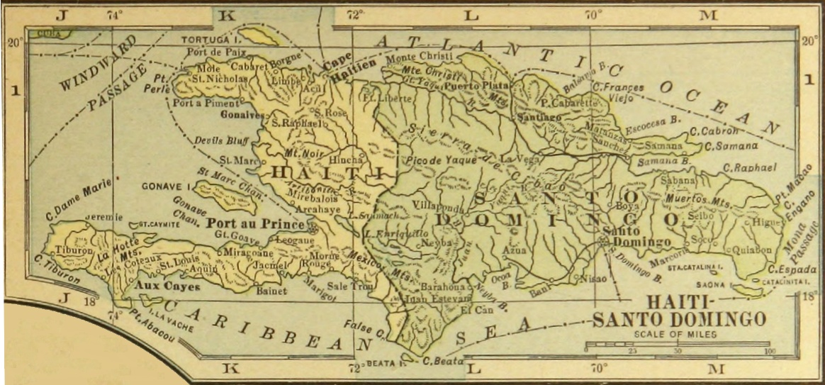 Map of Hispaniola (Haiti and Santo Domingo) from Putnam's Handy Volume Atlas of the World... (G. P. Putnam's Sons, 1921) p. 115 (inset). Scanned by University of Michigan and copied from HathiTrust’s digital library (